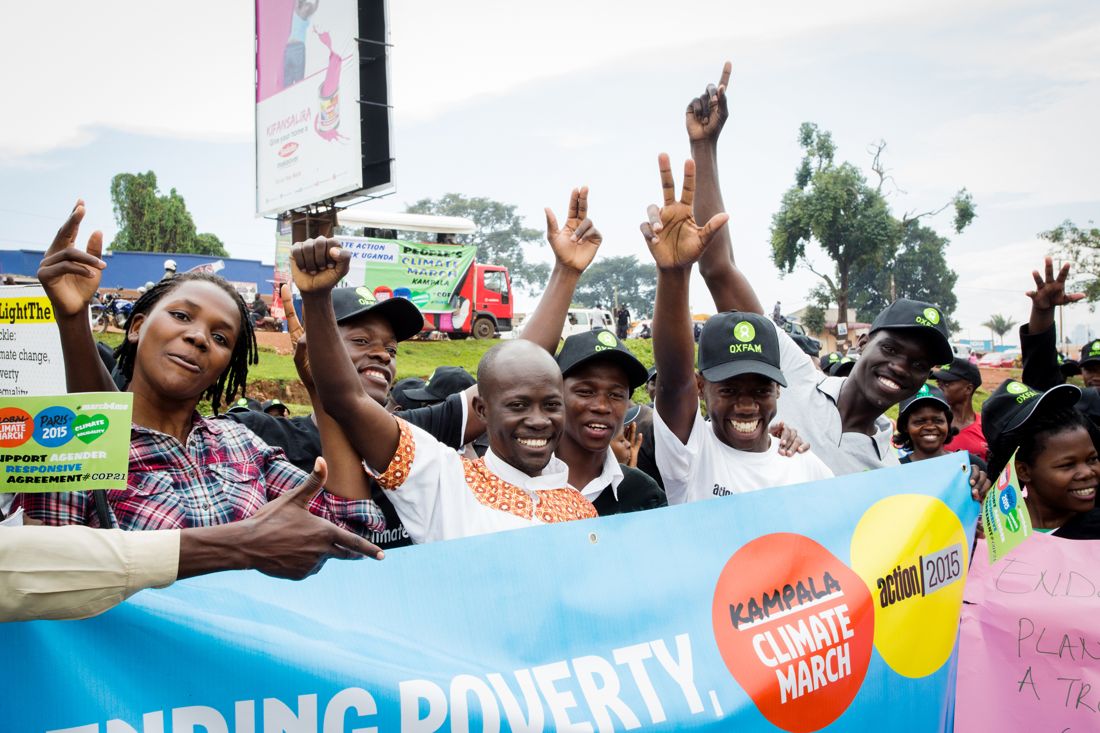 action/2015 campaigners in Kampala, Uganda march during the Global Climate March on 29th November 2015